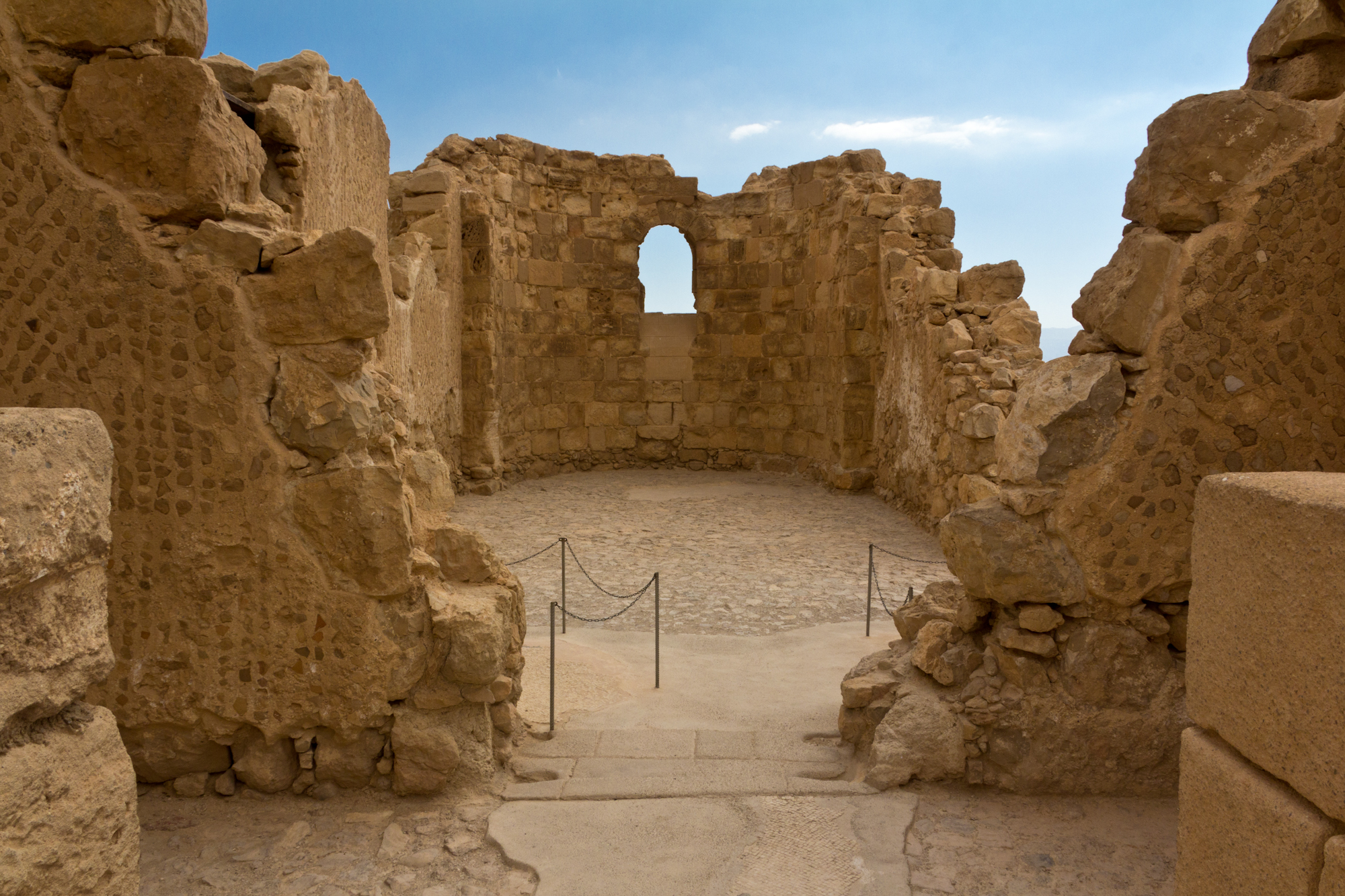 The Byzantine chapel at Masada